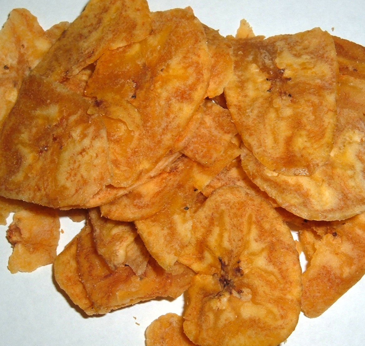 Chiffes Plantain Chips by Plantain Products Company